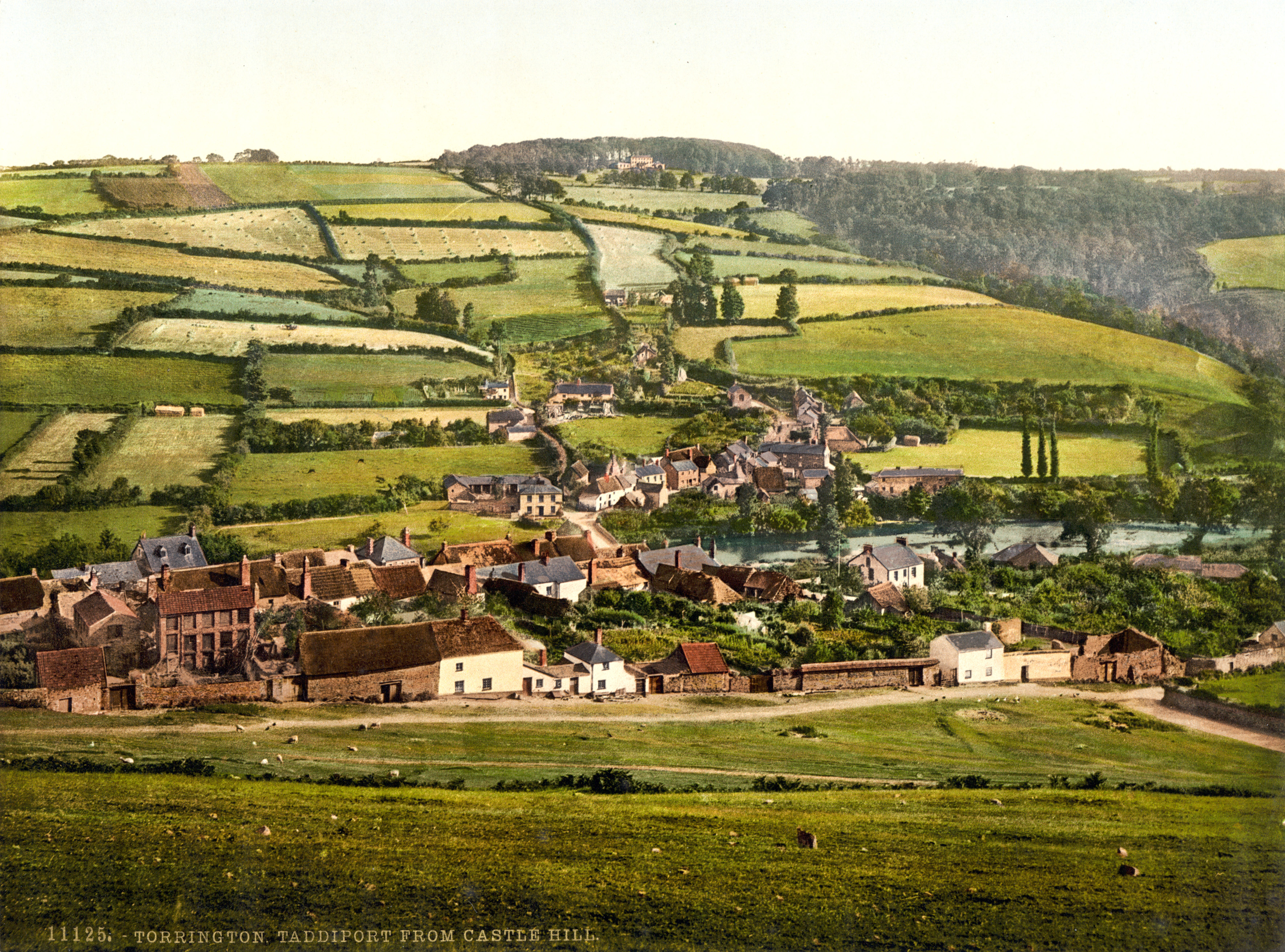 Taddiport from Castle Hill, Torrington, Devon, England